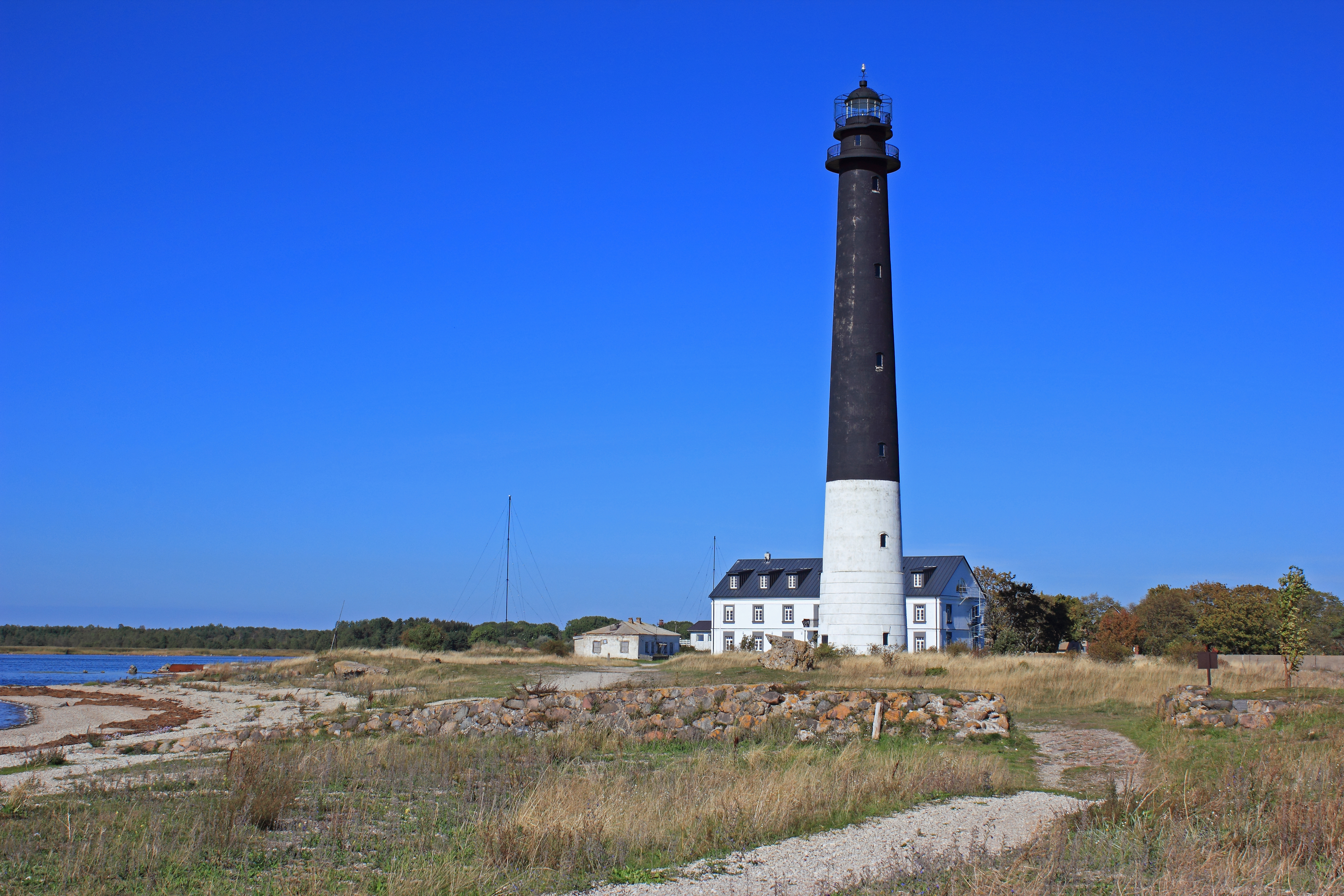 Lighthouse of Sõrve Peninsula on Saaremaa Island, Estonia. Taken from South. On the left, the Baltic Sea.